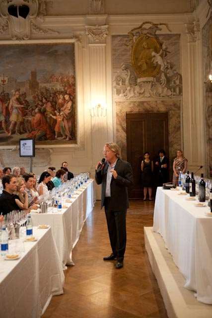 James Suckling speaking at a wine tasting seminar at the first Divino Tuscany event, 2011.